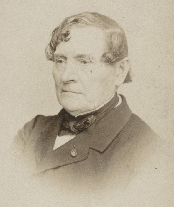 French economist Gaston d'Audiffret (1787-1878)